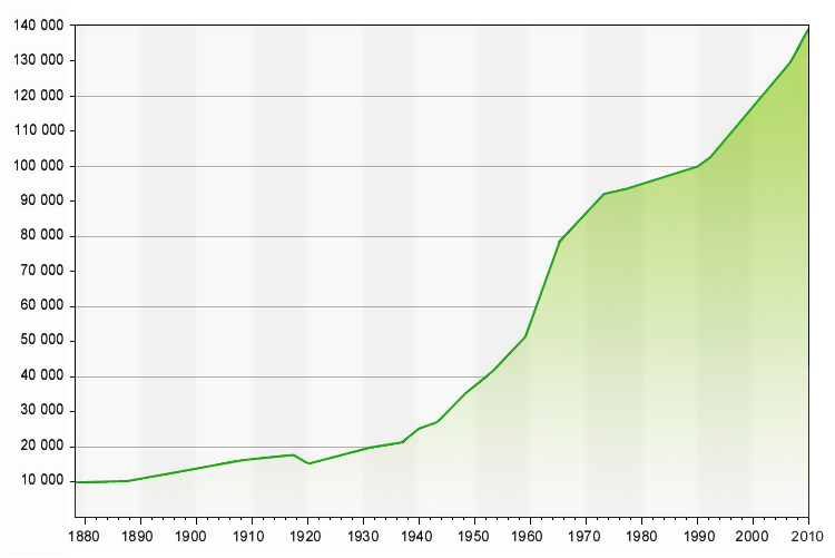 A graph showing population of Oulu, Finland from the 1880s to 2010s